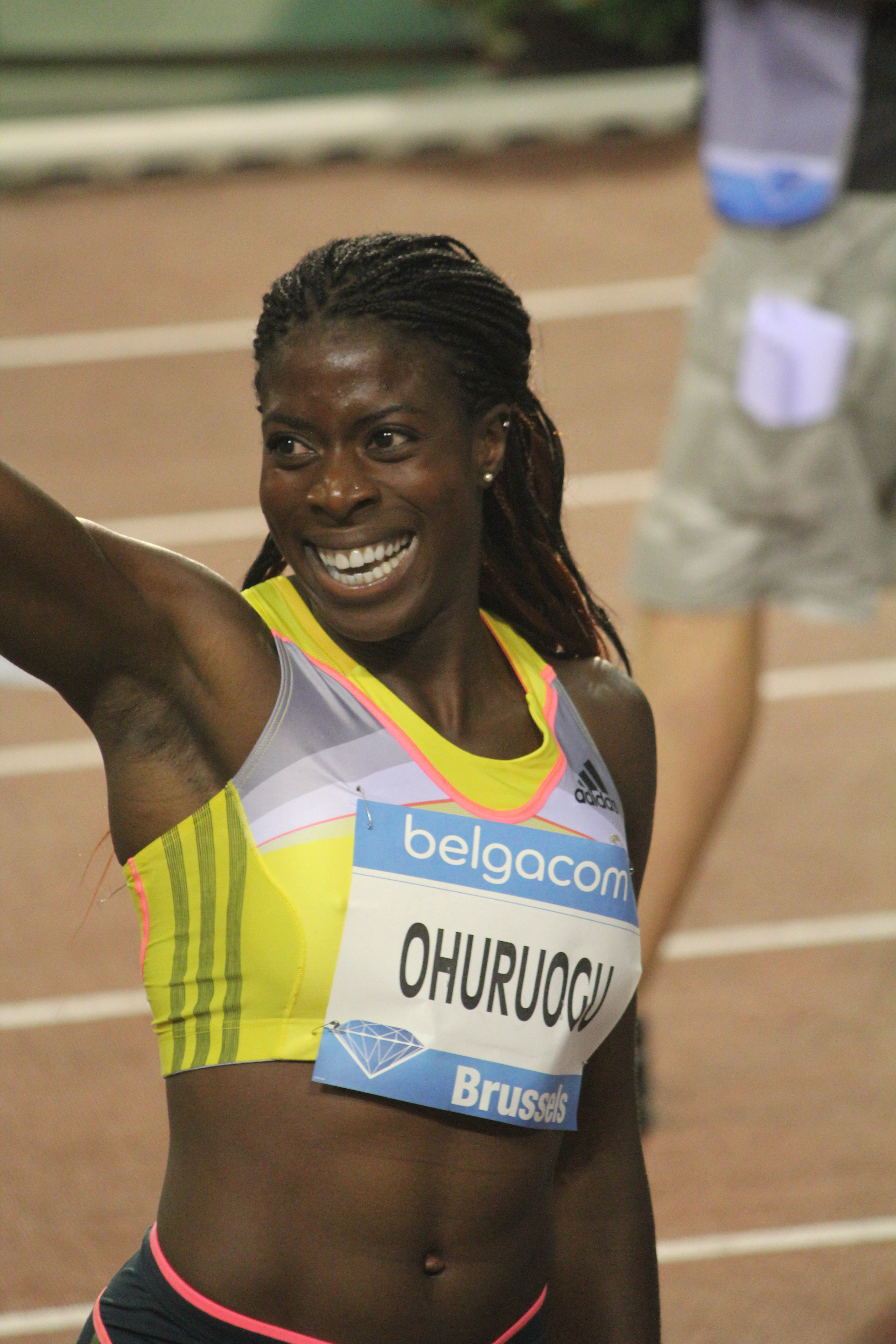 Memorial Van Damme, Christine Ohuruogu (GBR), 400m, Olympic champion 2008, world champion 2013 Christine Ijeoma Ohuruogu (born 17 May 1984) is a British athlete who specialises in the 400 metres, the event for which she is the current World and former Olympic and Commonwealth Champion. She is a double World Champion, having also won the 400 m at the 2007 World Championships, and was a silver medalist at the Olympics in London. (source